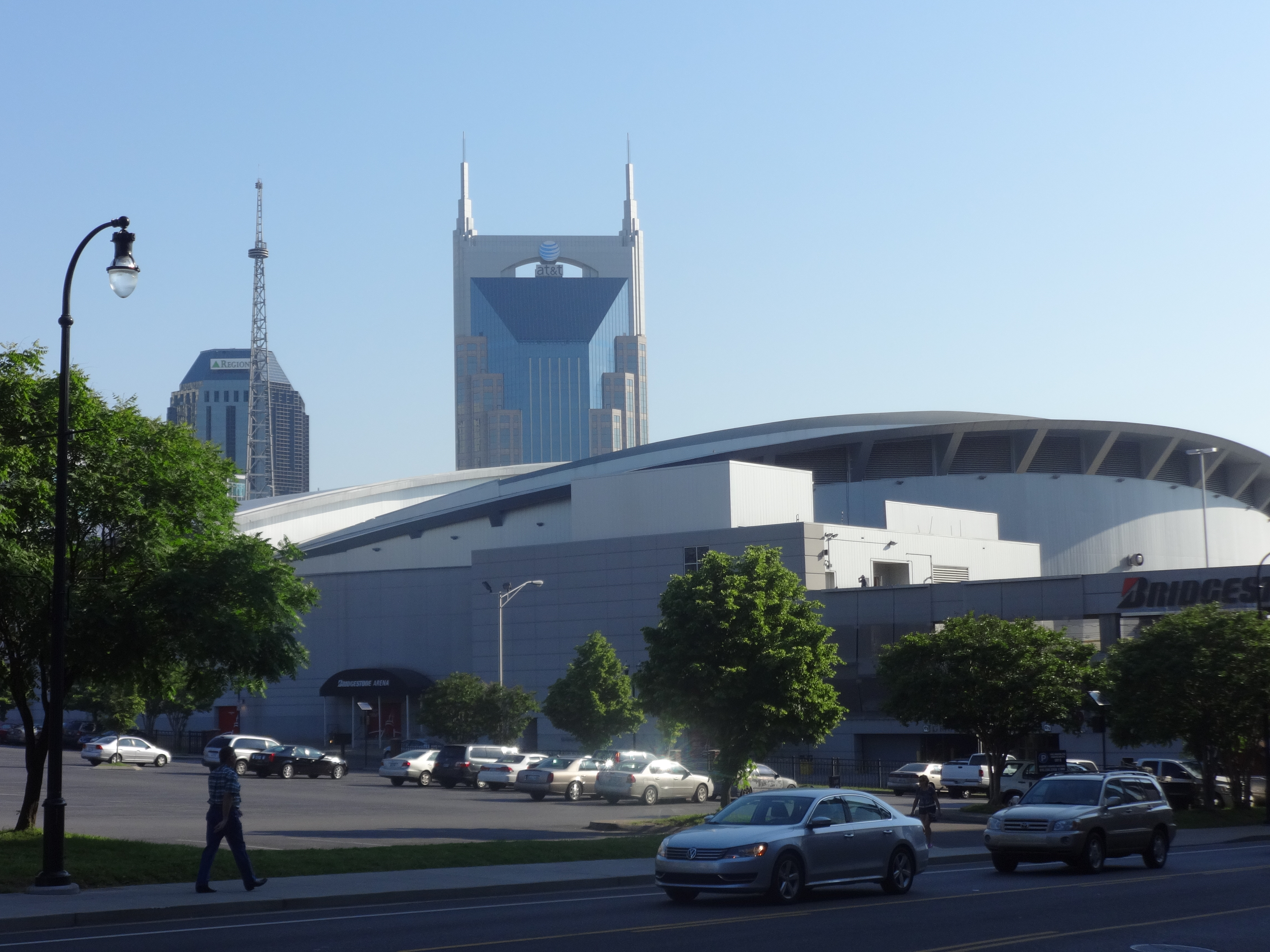 Bridgestone Arena, Nashville, Davidson County, Tennessee